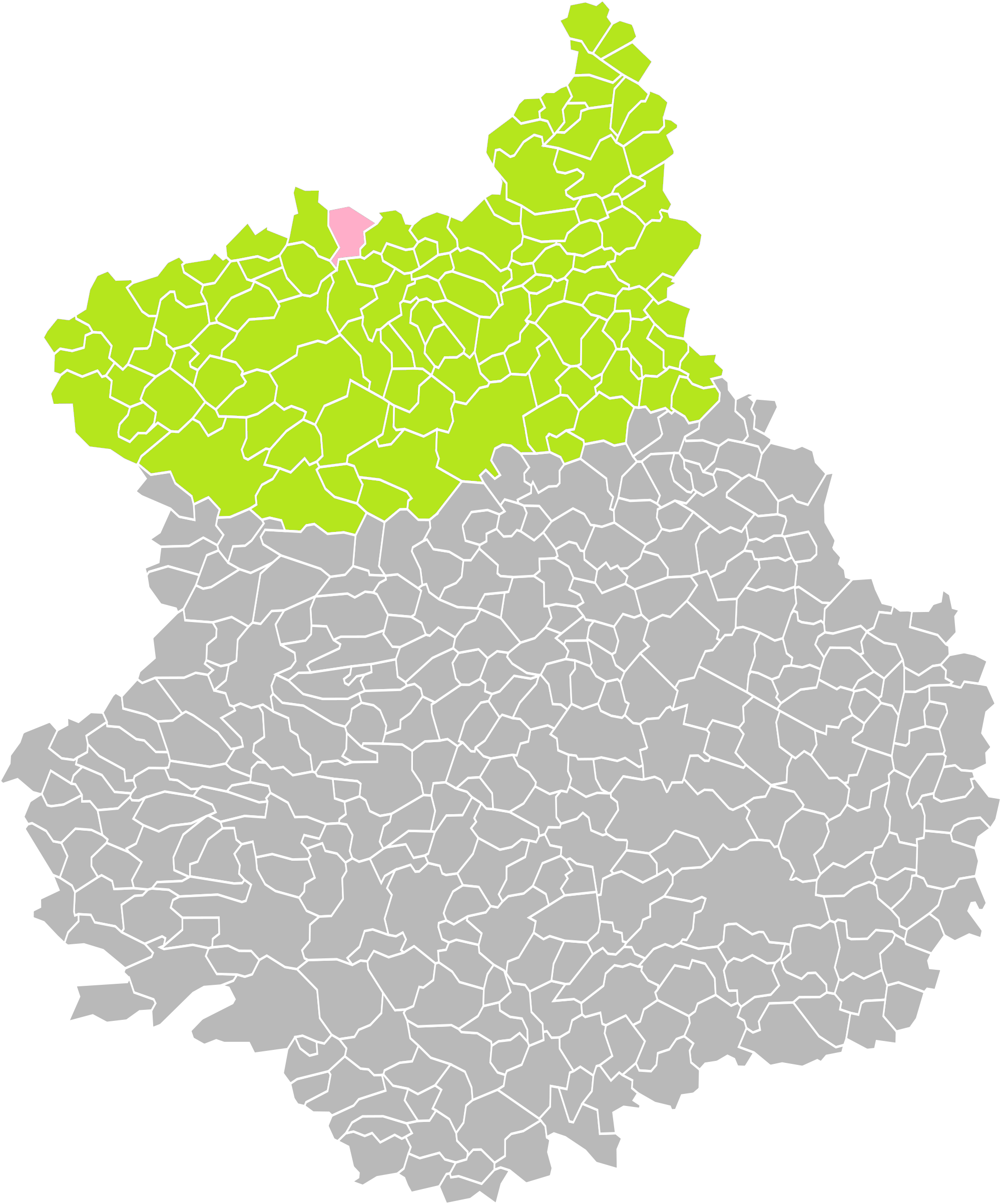 Location of the commune of Saint-Lubin-des-Joncherets in the arrondissement of Dreux (Eure-et-Loir)